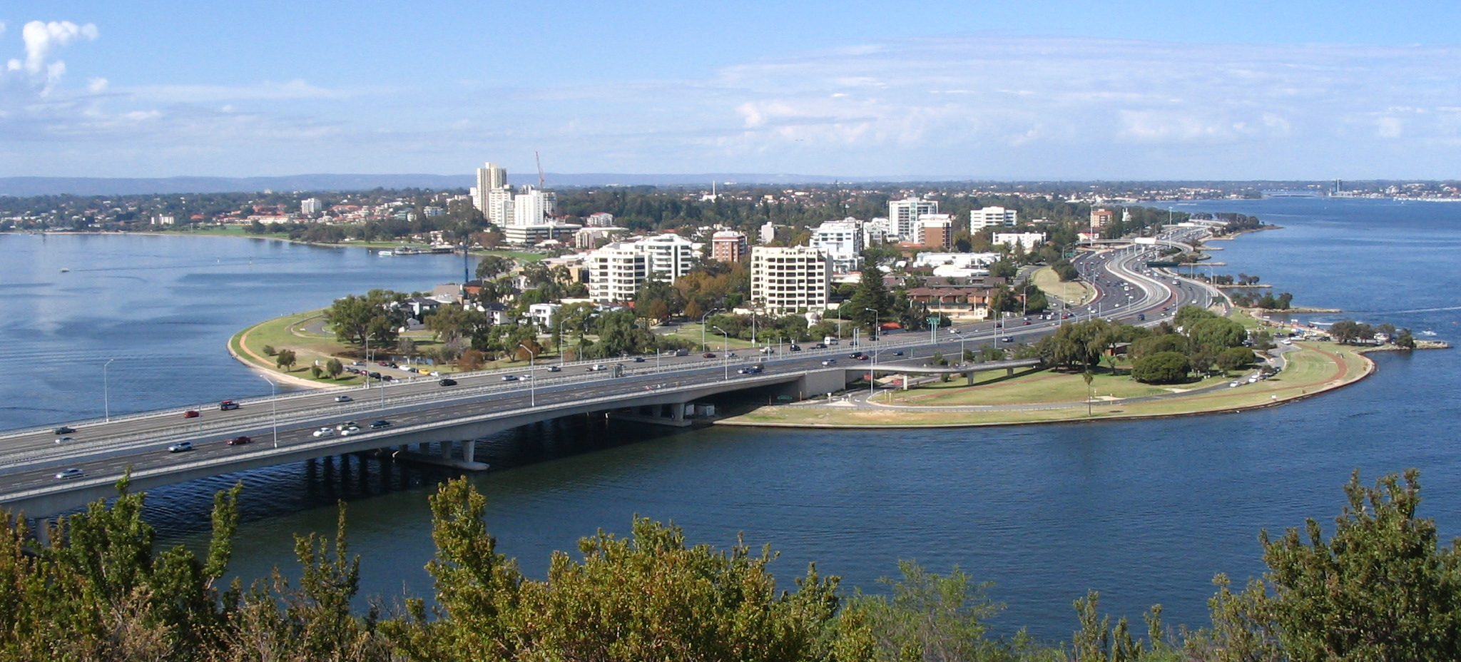 View of Mill Point, part of South Perth, from Kings Park, surrounded by the Swan River on three sides, with Kwinana Freeway in left foreground.